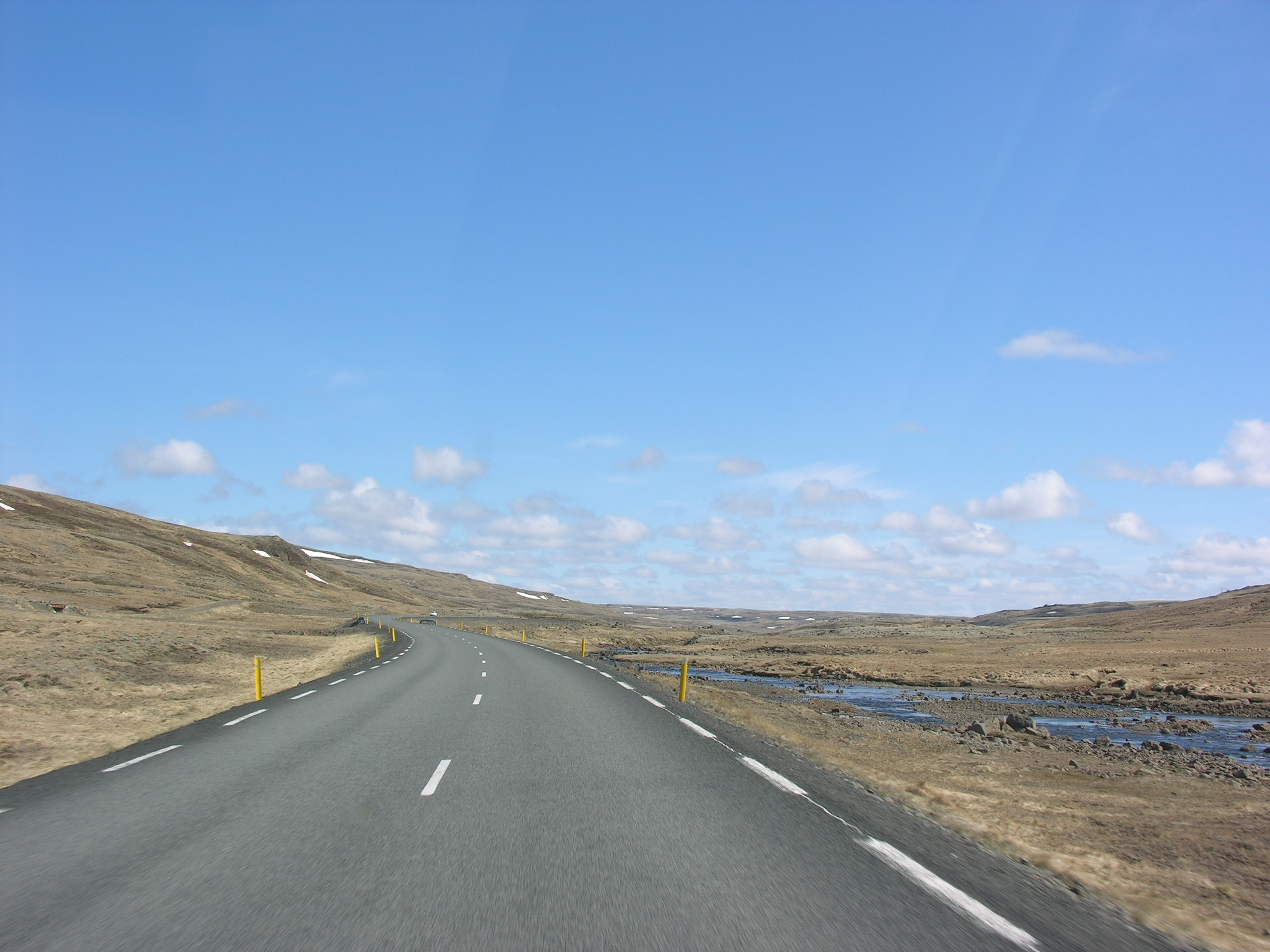 Iceland , views along road Road 1 in Iceland (Hringvegur). Picture is geocoded manually; if someone can contribute to the accuracy, please do so.